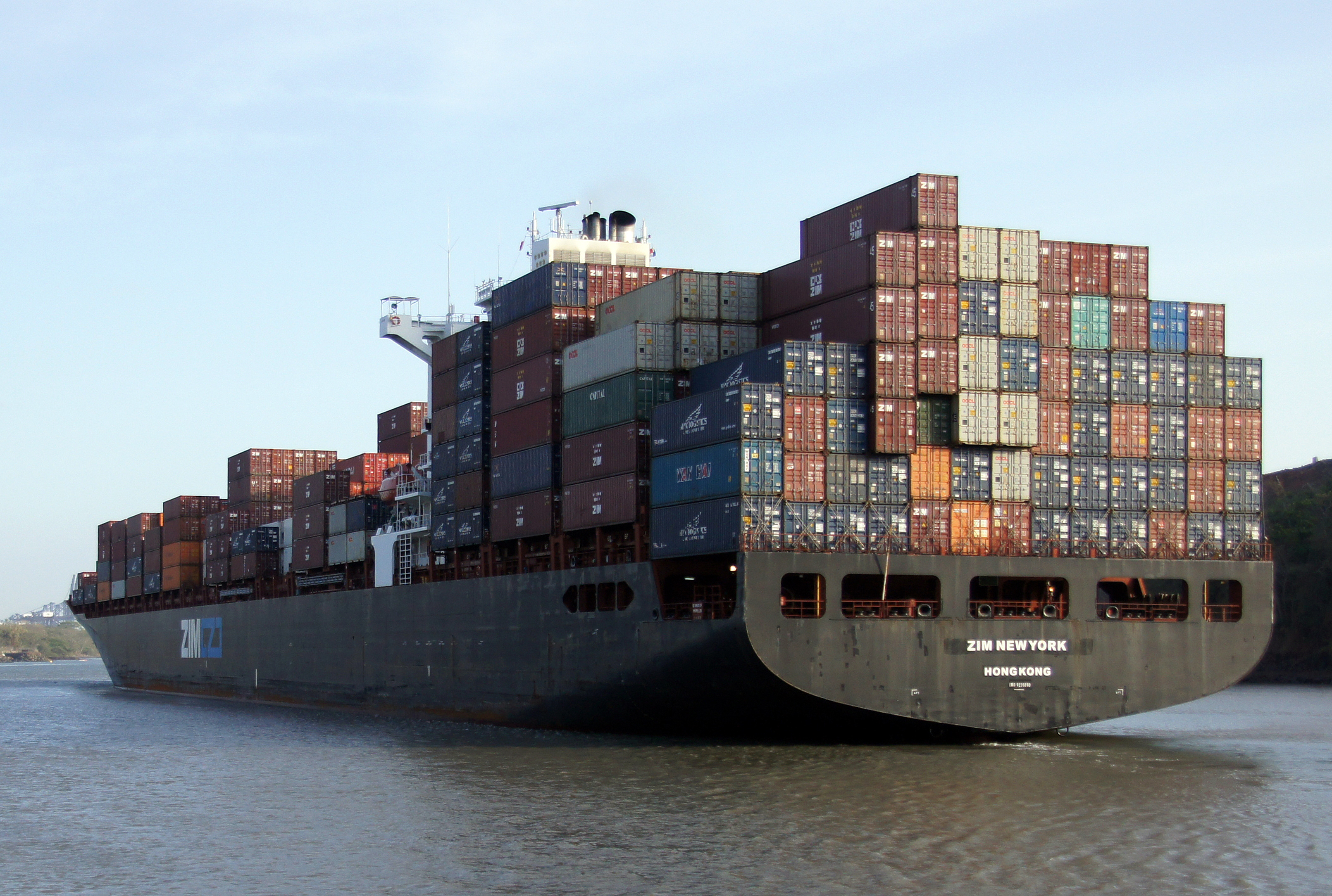 Container ship ZIM New York, Miraflores Locks, Panama Canal